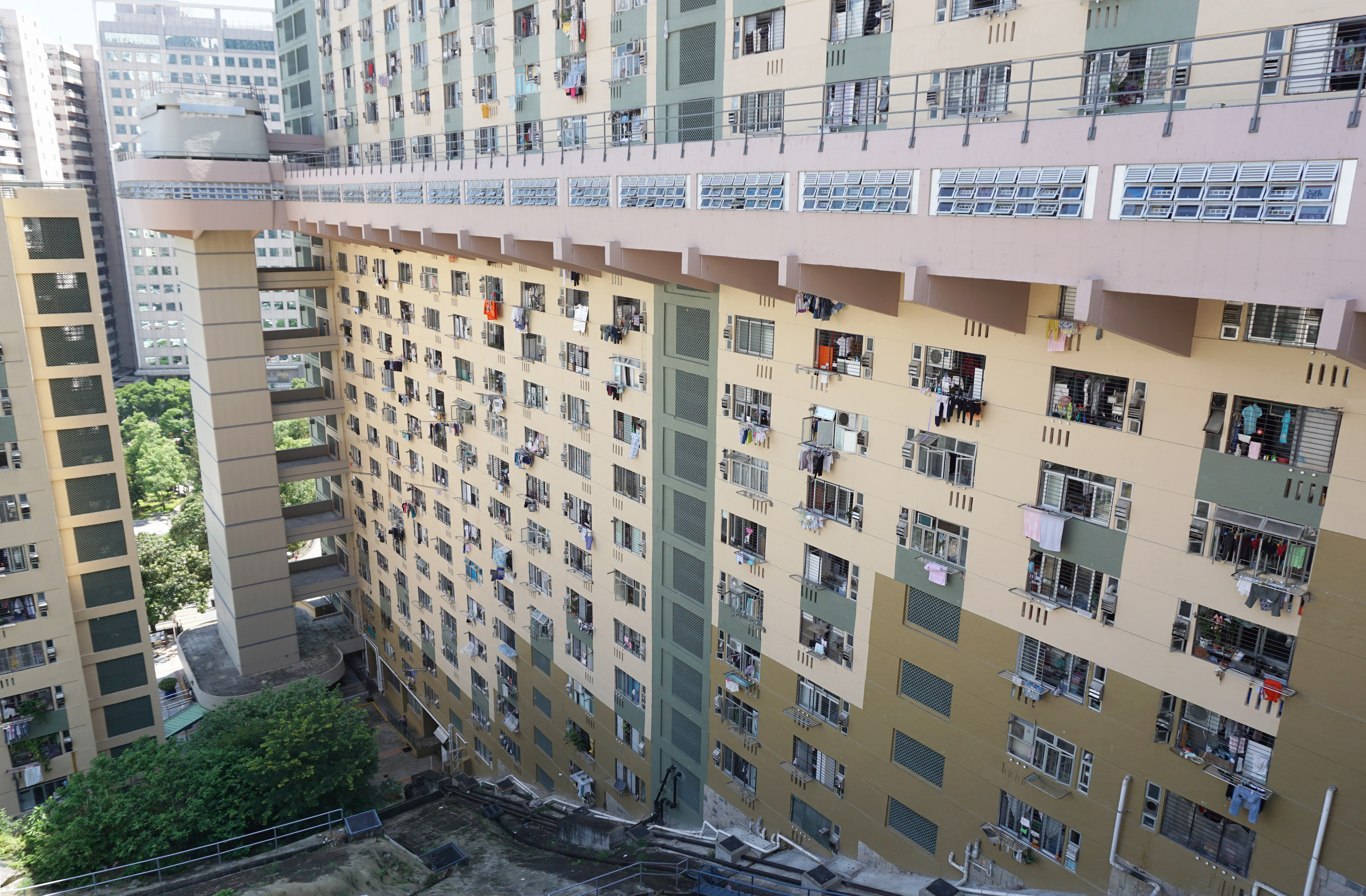 Kwai Shing West Estate in Kwai Shing, Hong Kong.